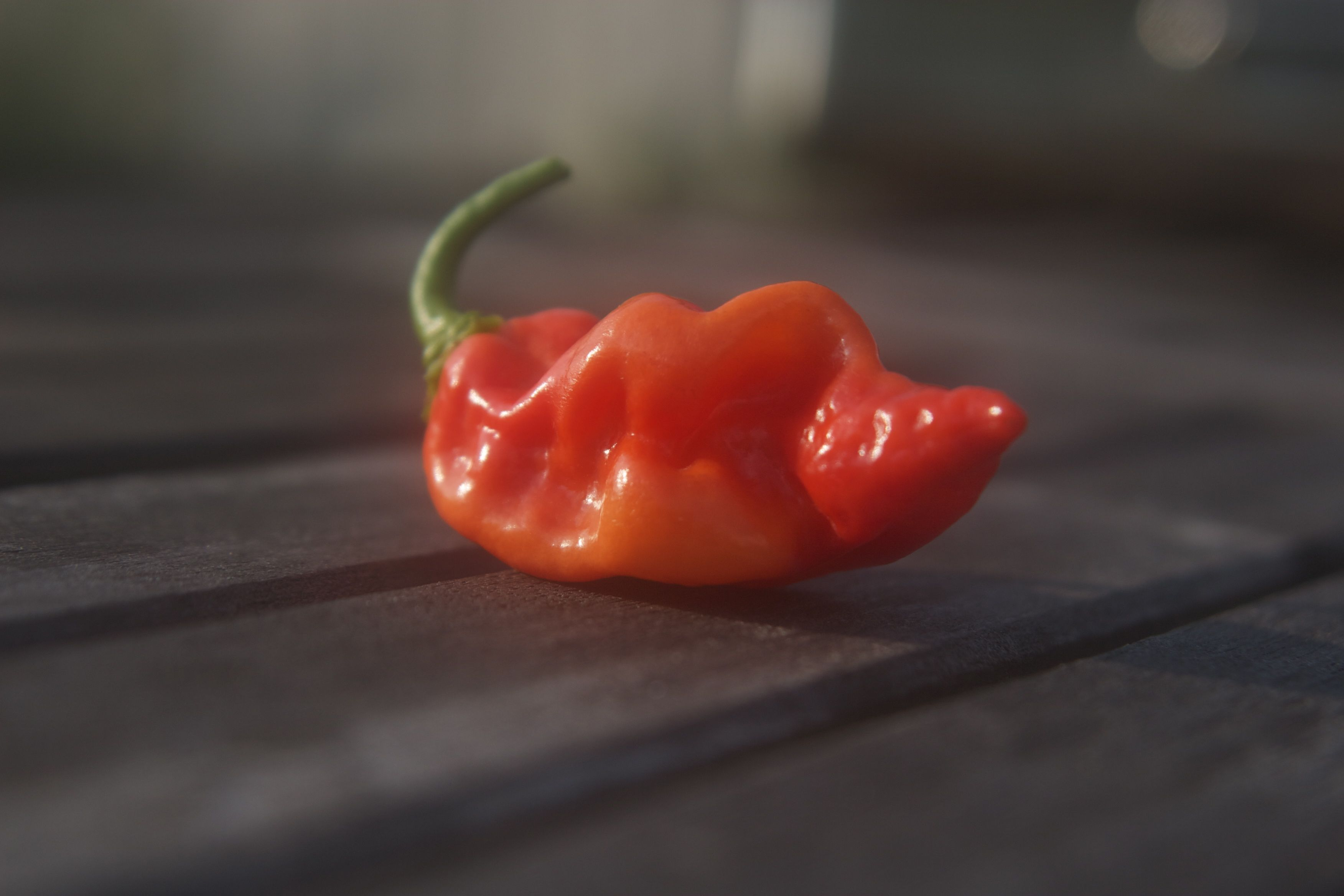 Photo of a Datil Pepper